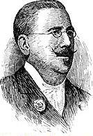 Abraham Goldfaden, from the Jewish Encyclopedia Category:Jewish Encyclopedia images